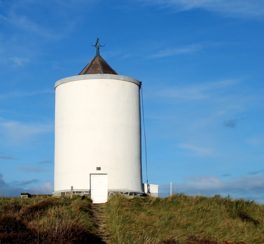 Water tower in Løkken, Denmark